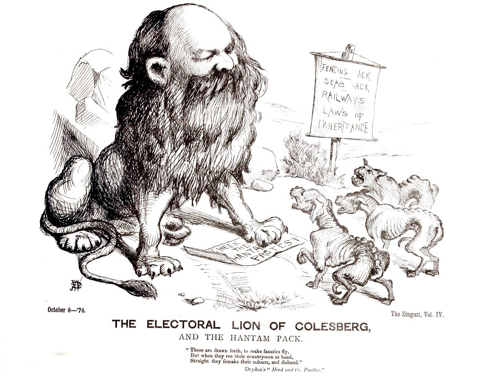 John Sweet Distin - MLA for Colesberg Cape Colony - facing down a minority of conservative critics in his constituency who had objected to his support for liberal measures in Parliament.